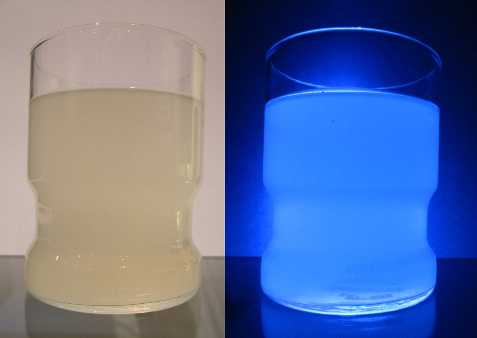 Bitter lemon under regular and UV light; the chinin in the softdrink makes it glow in the dark.